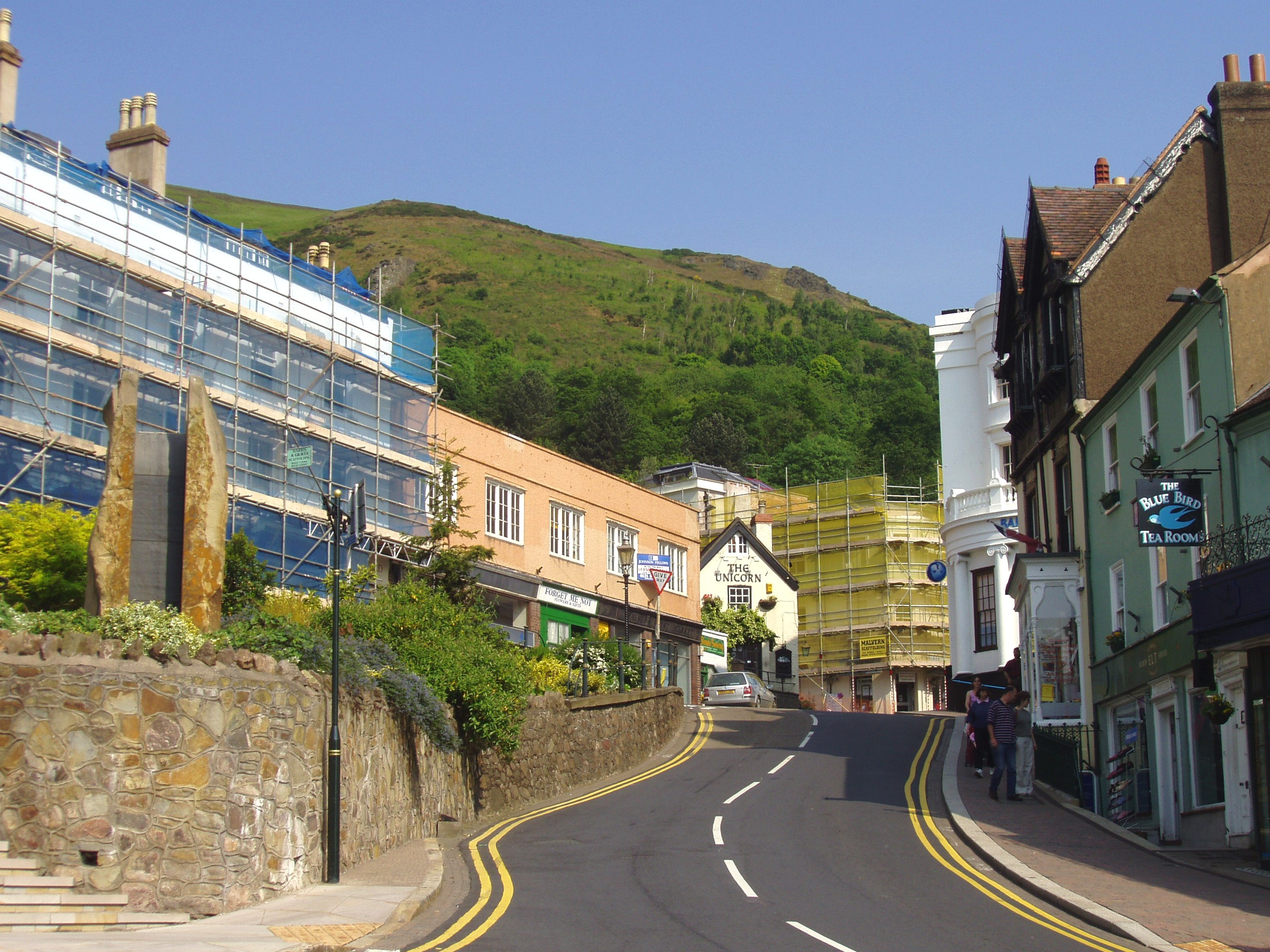 Great Malvern, Worcestershire, England. General view of the upper town with famous Malvern hill in background and two buildings wrapped for restoration work. Photograph taken by me, June 2005.